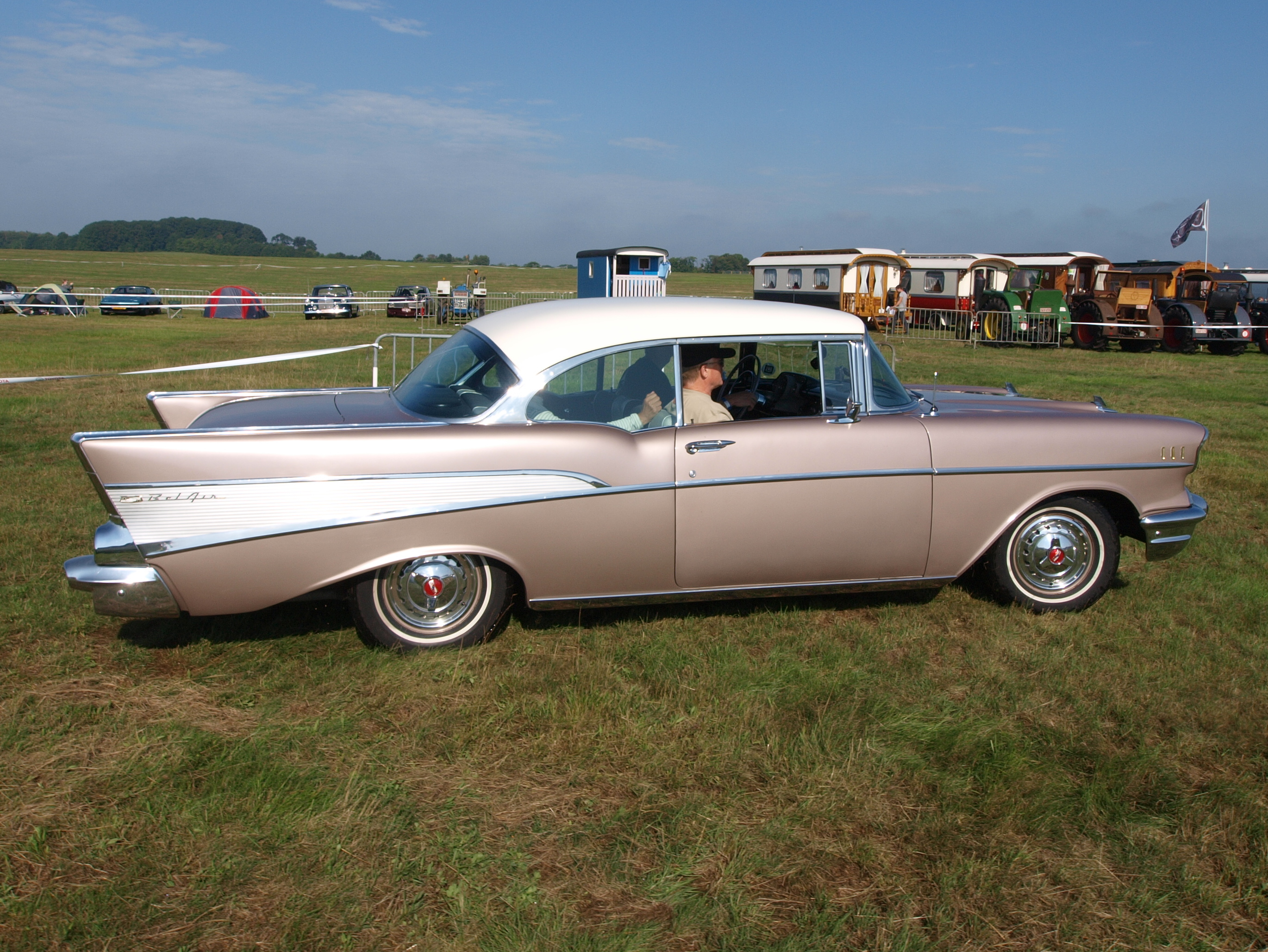 Photographed at the International Old Timer Fly-in 2010, Belgium